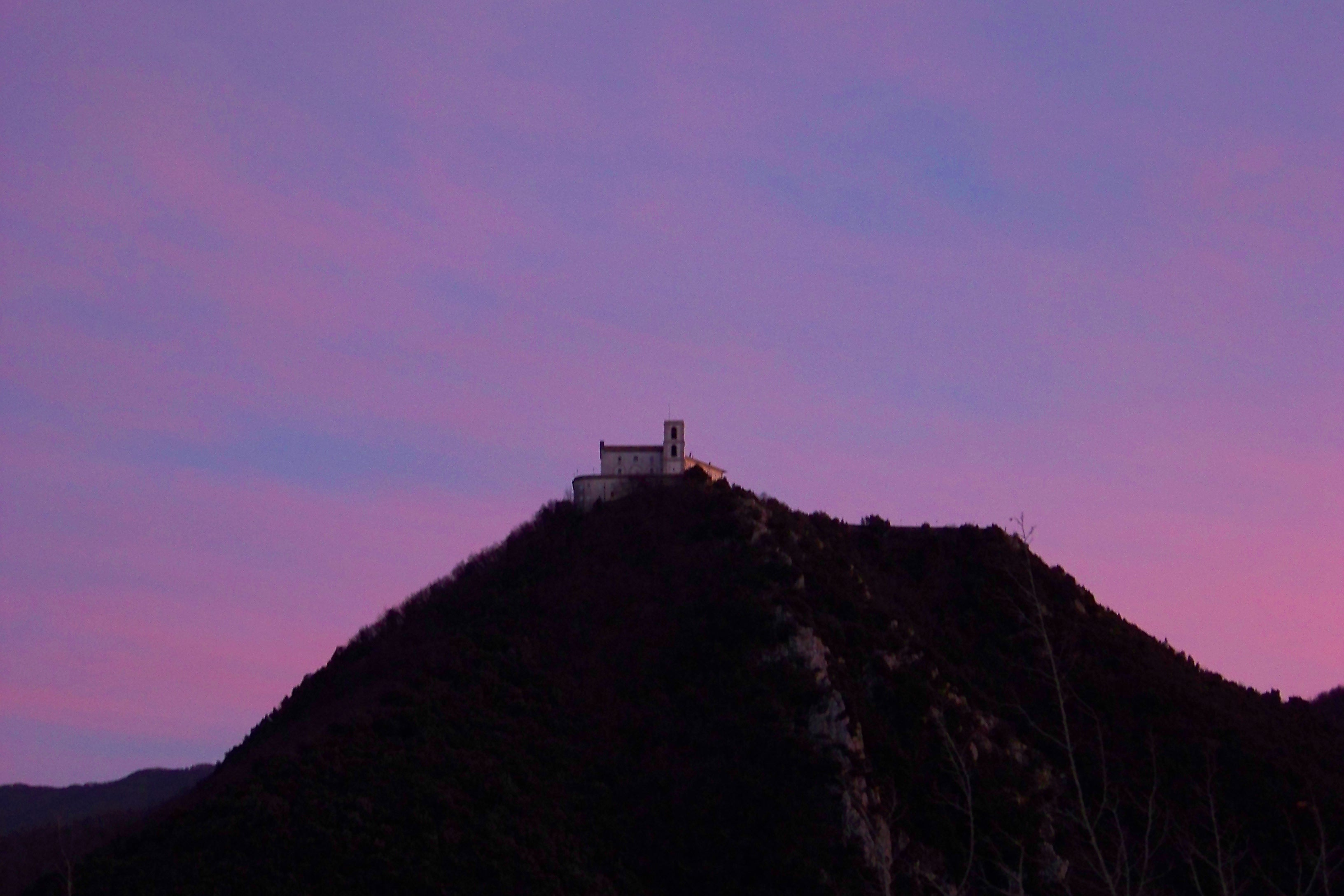 Sunset late fall - Church of Santissimo Salvatore, Montella, Avellino, Italy; 954 m on sea level.